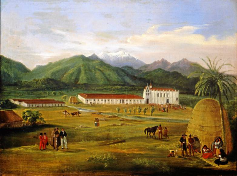 Painting of San Gabriel by Ferdinand Deppe (1832). This is the first oil painting done of a California Mission. It shows one of the Gabrielino's domed, circular structures (kiiy) thatched with tule. Deppe sketched this scene during a Corpus Christi procession.